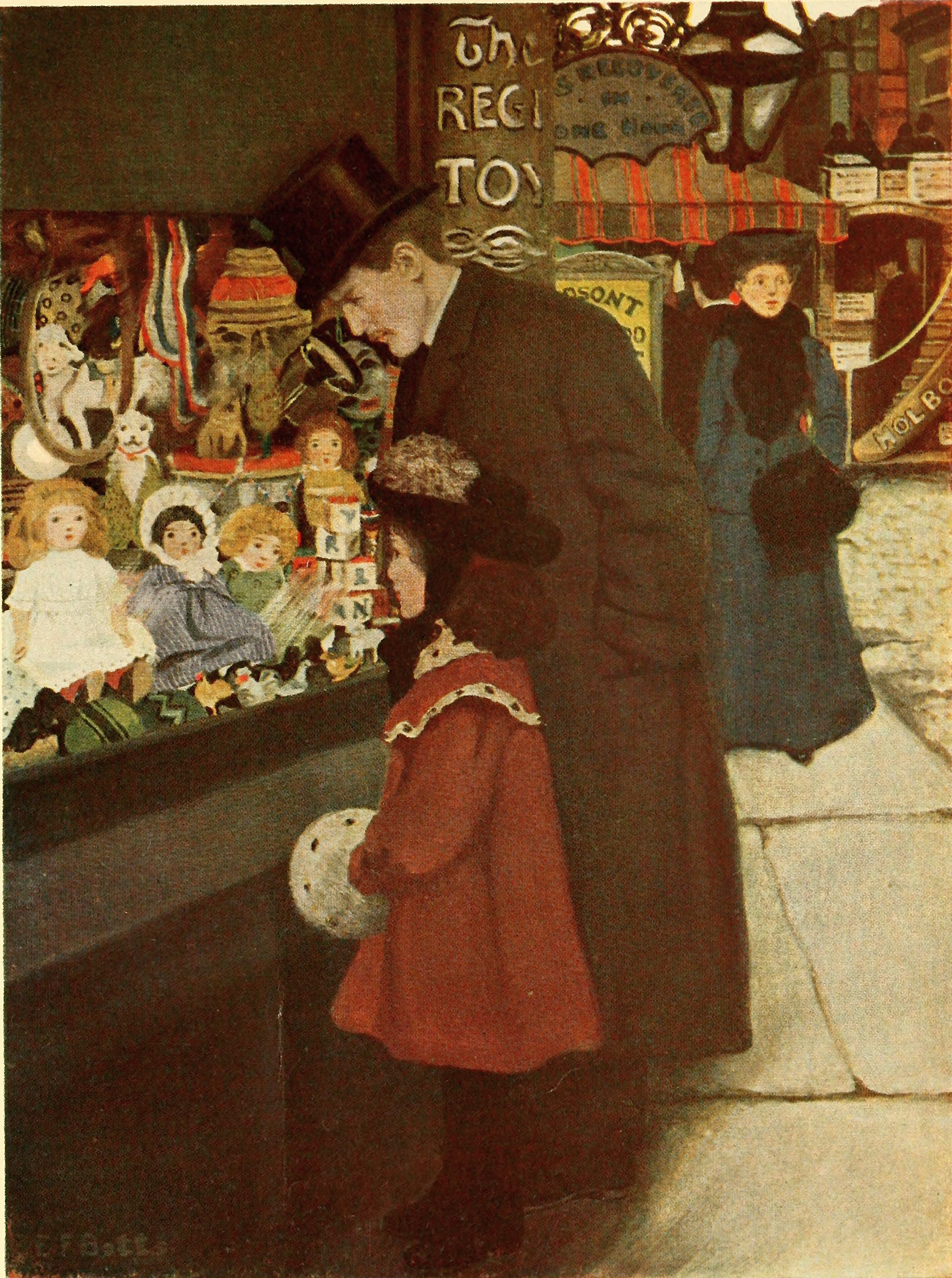 Cropped and adjusted from Page:A Little Princess.djvu/31